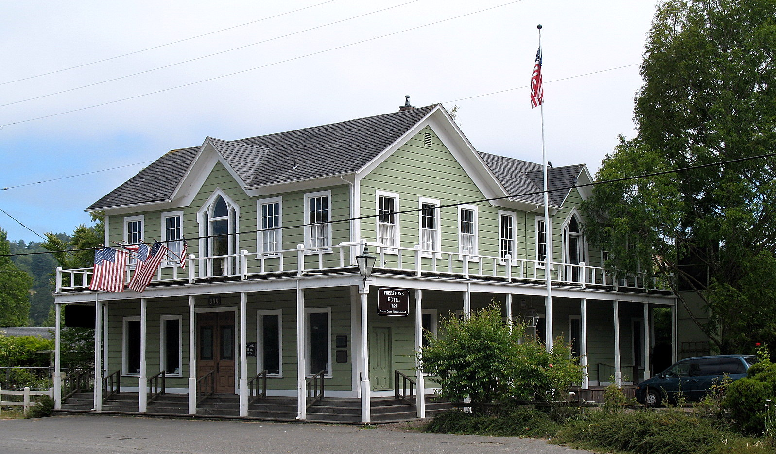 National Register of Historic Places listings in Sonoma County, California. Hinds Hotel (1872), 306 Bohemian Hwy., Freestone, California (also known as the Freestone Hotel)